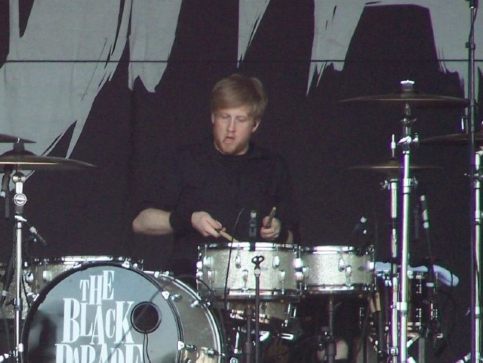 cropped image of Bob Bryar performing with My Chemical Romance in February 2007